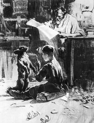 Kashtanka.